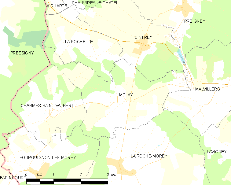 Map of French municipality